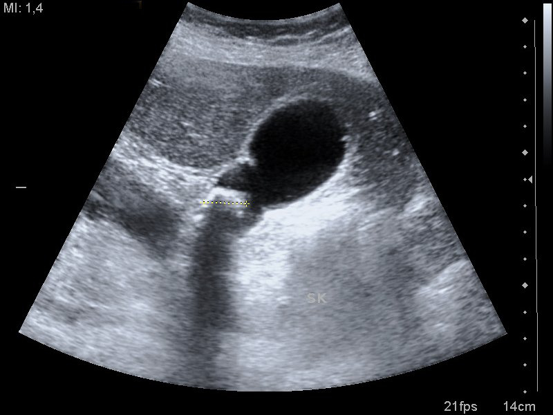 Medical Ultraound, Gallbladder